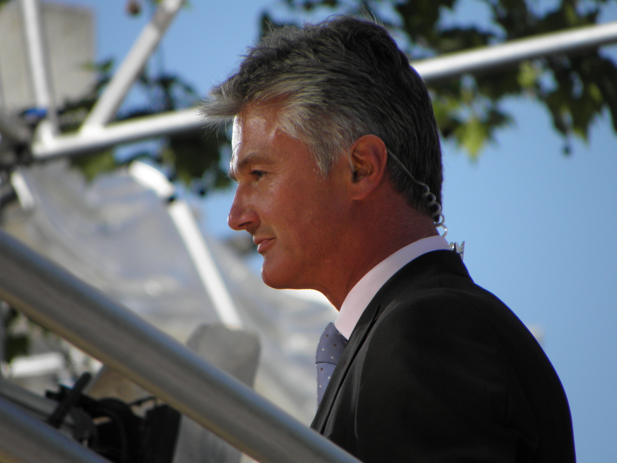 Tim Willcox reporting on preparations for the 2011 Royal Wedding, pictured opposite Westminster Abbey